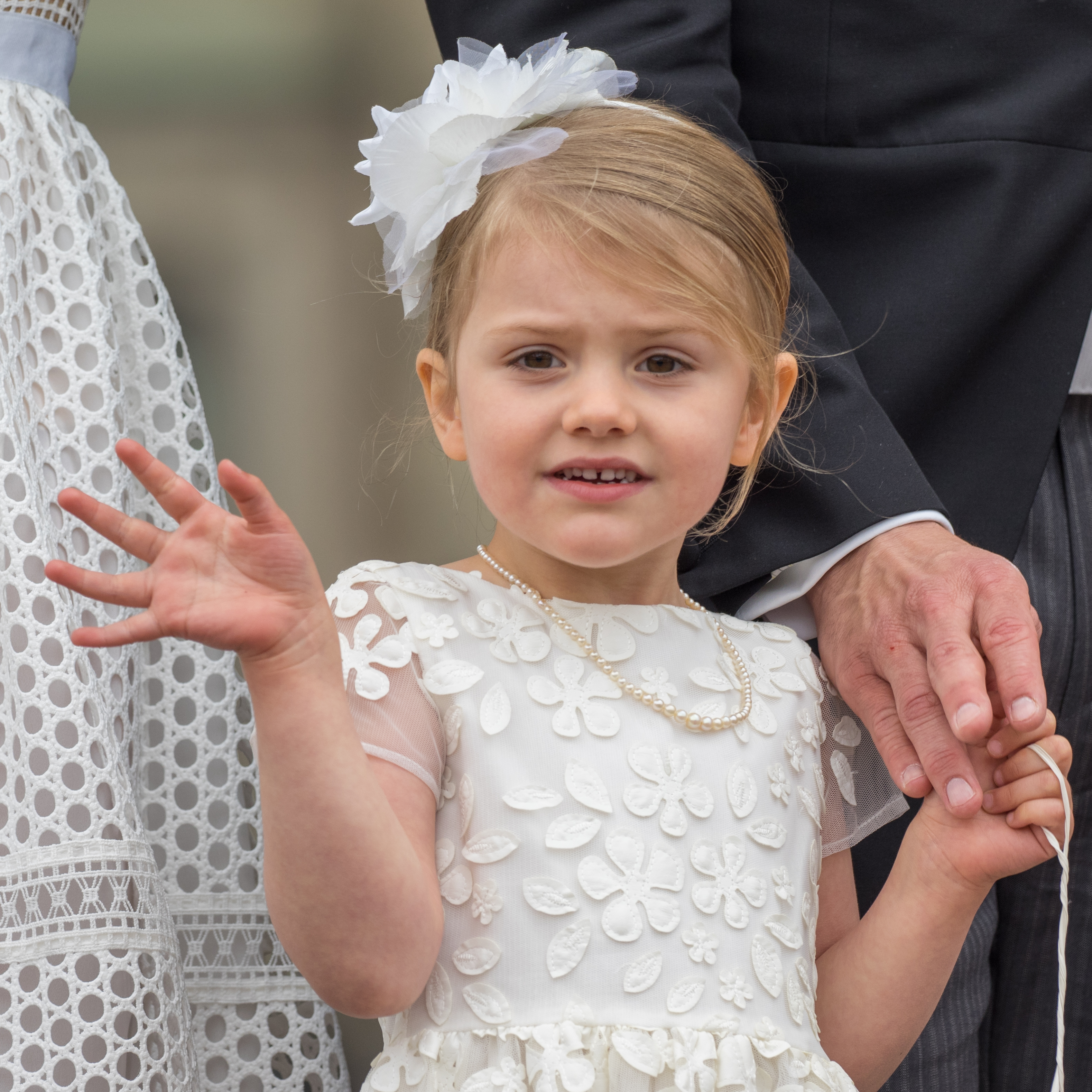 Crown Princess Victoria of Sweden with children in 2016